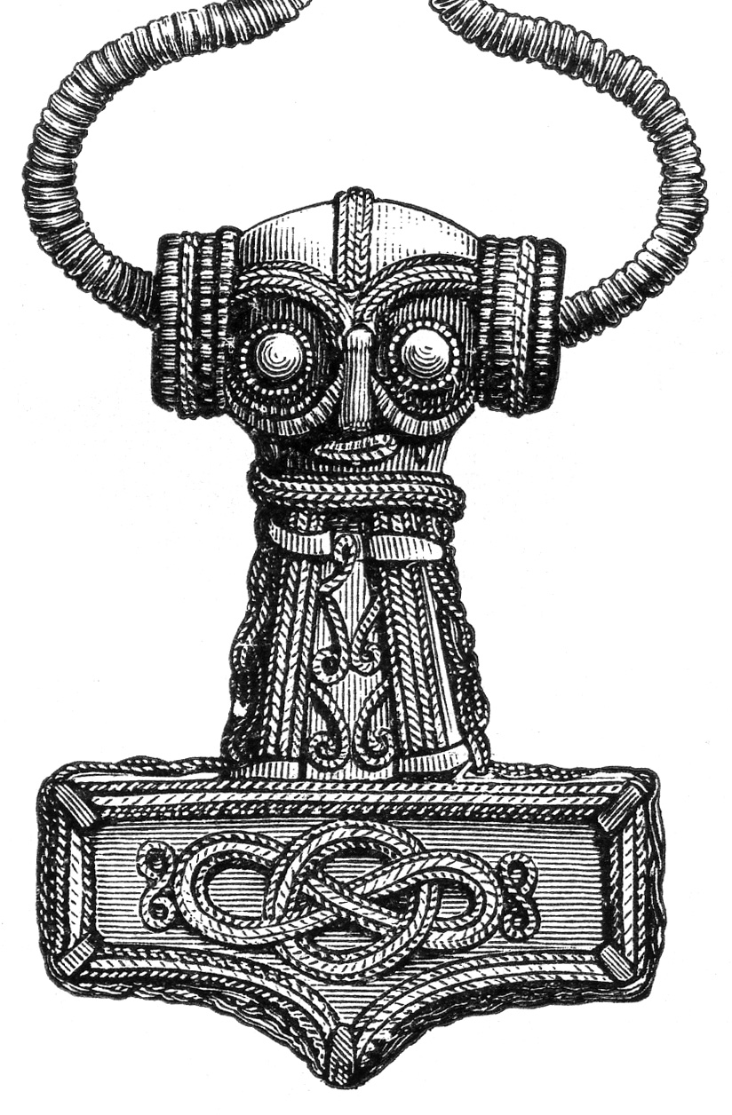 Thor's hammer in gold and silver from Erikstorp, Ödeshög parish, Ödeshög municipality, Östergötland, Sweden.